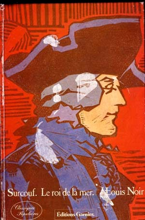 Cover of "Surcouf"